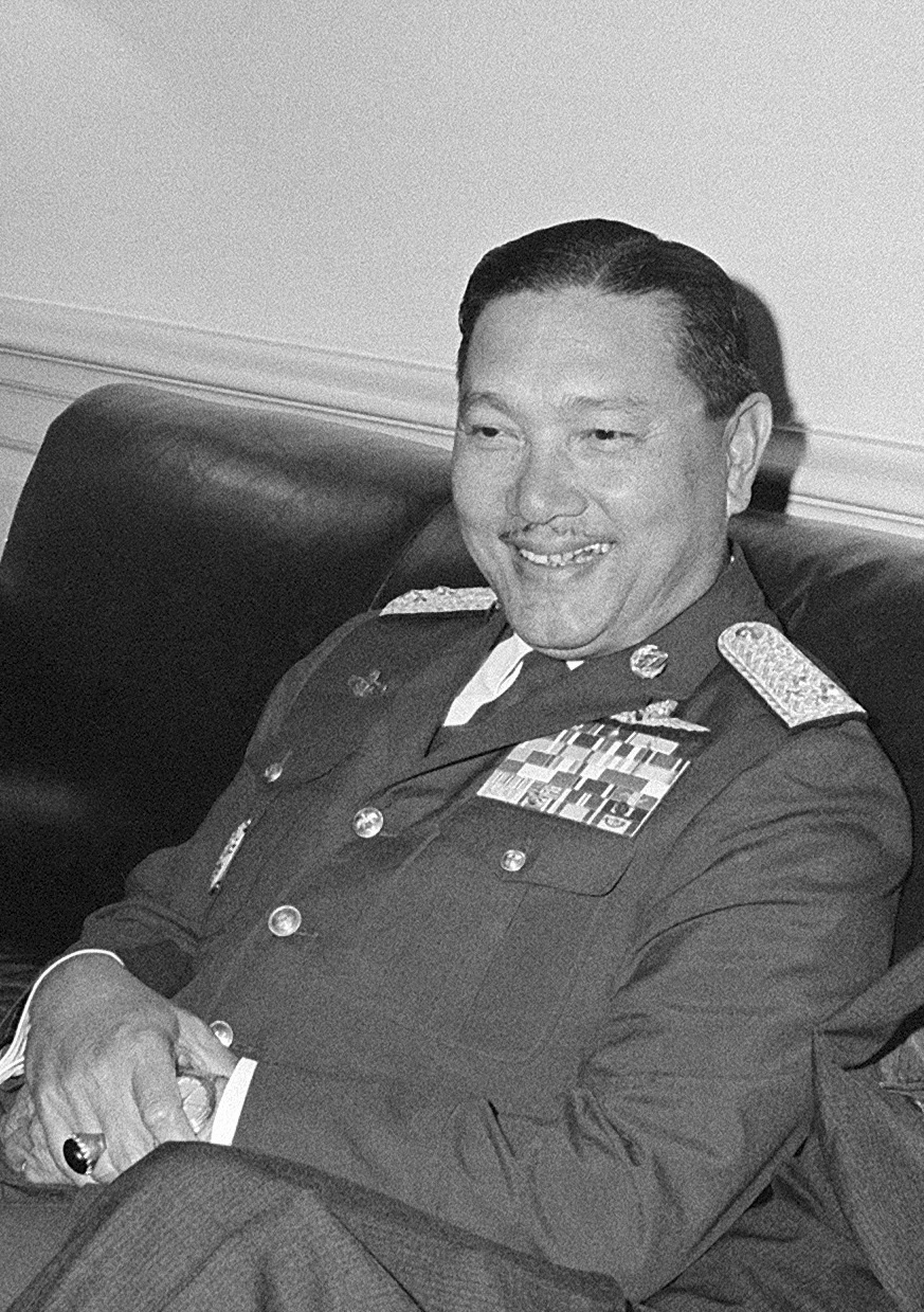 Dawee Chullasapya, Air Chief Marshal and Deputy Minister of Defense, Thailand (center), meets with Secretary of Defense Robert S. McNamara at the Pentagon.